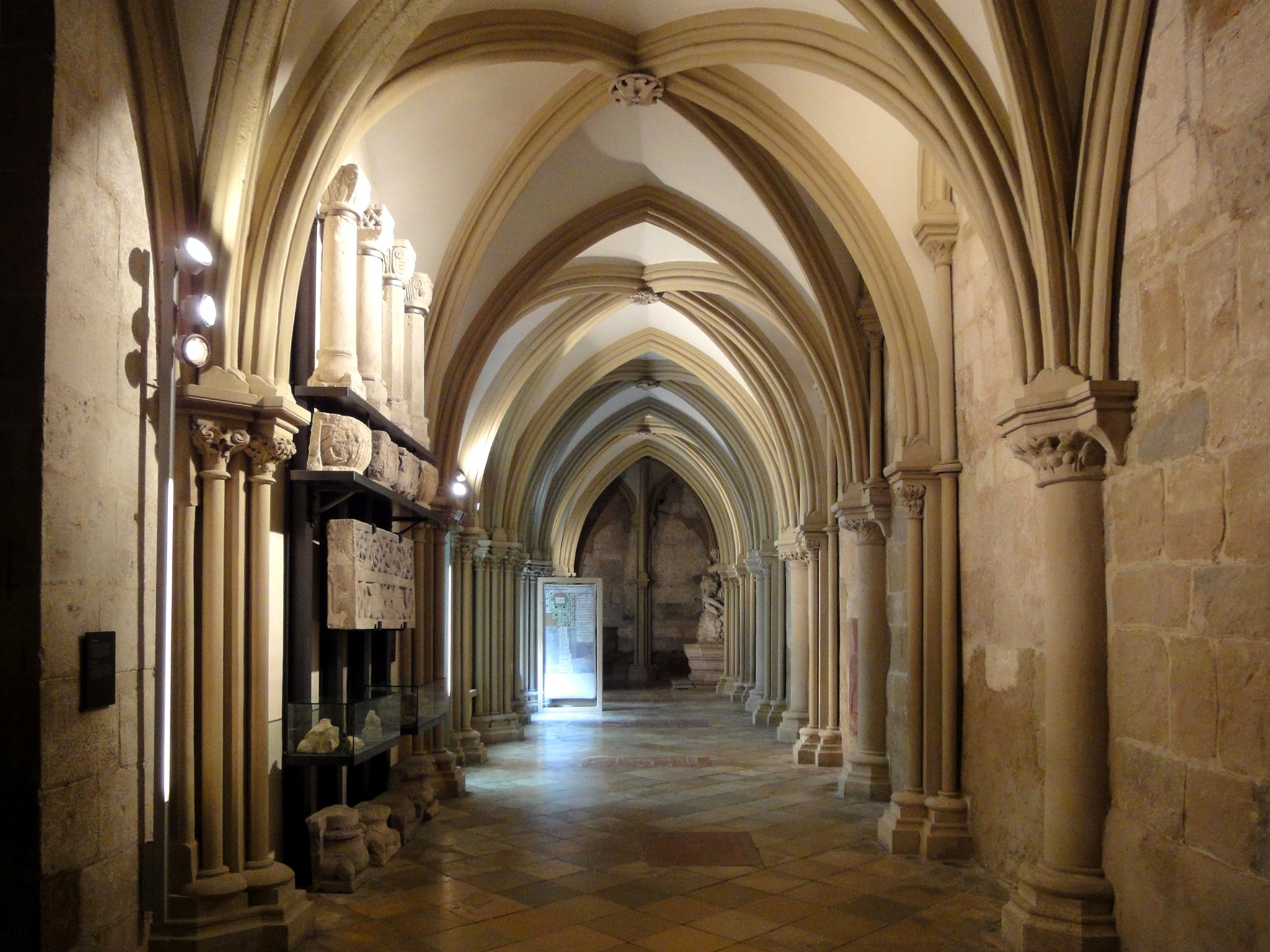 Klosterneuburg Monastery